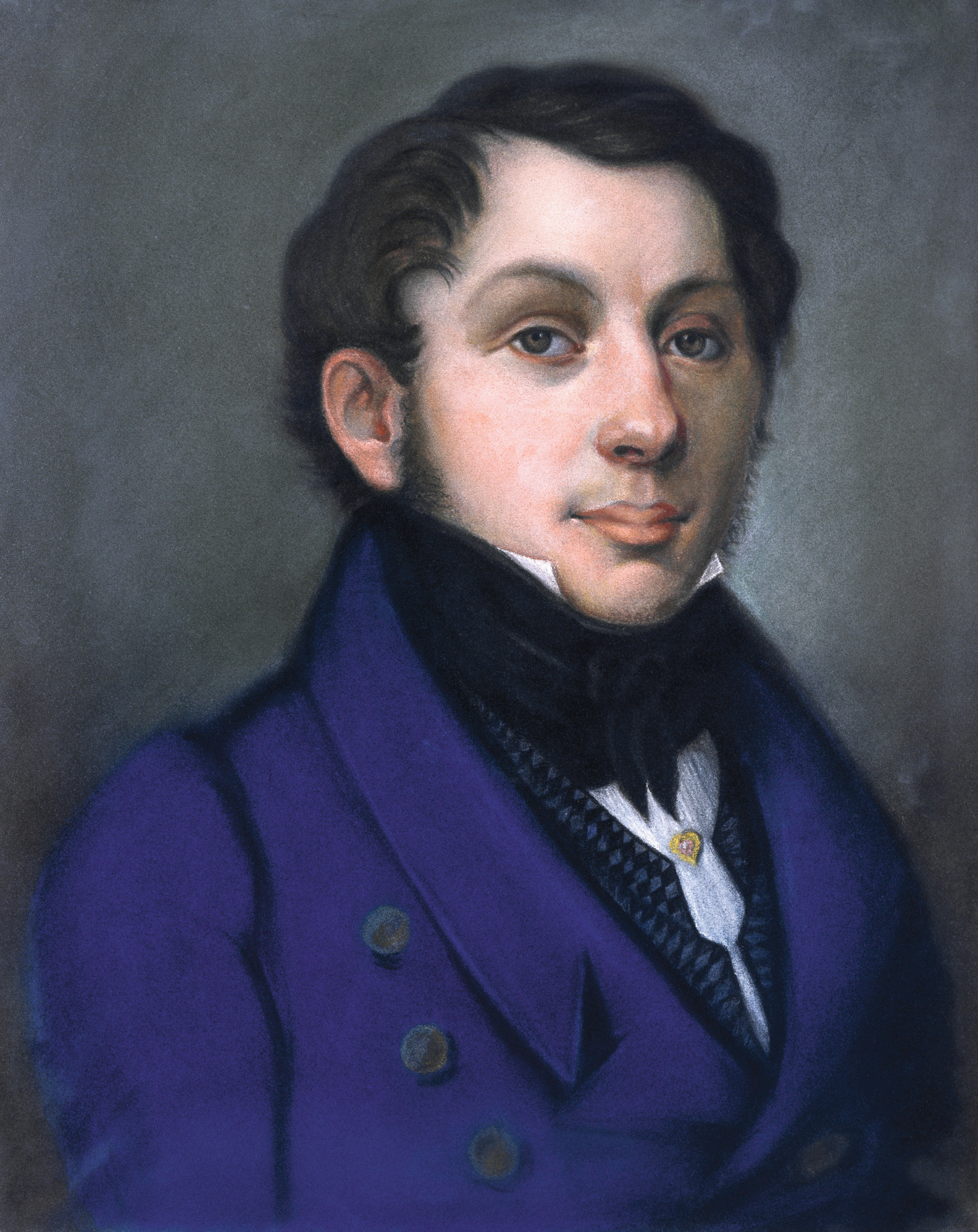 Franz Bruch, a German retailer. In 1828 he founded an enterprise in St. Wendel, German state of Saarland, that has developed until now to an international chain called "Globus Holding"